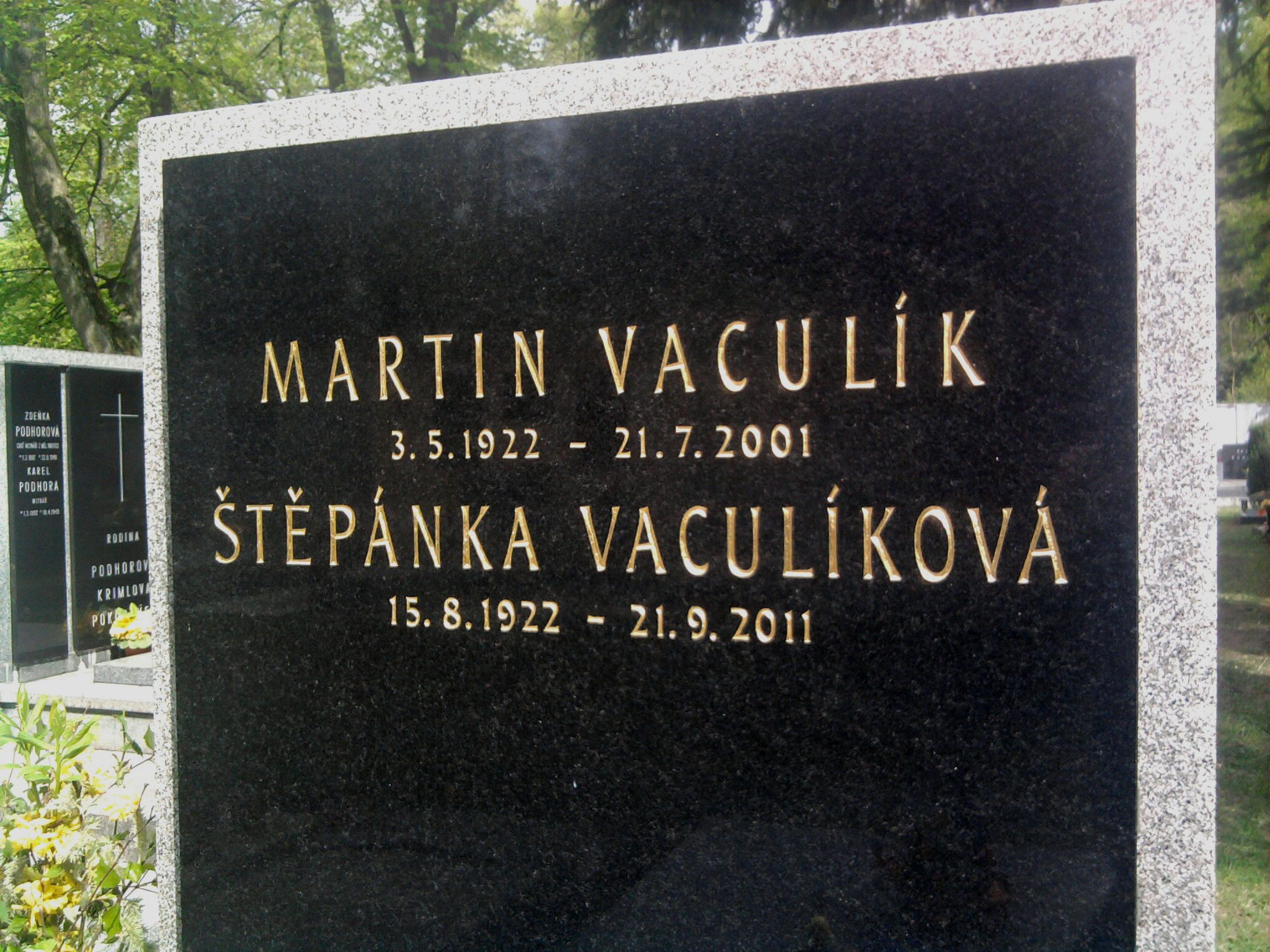 Headstone over grave of Martin Vaculik (1922–2001), who was a Czechoslovak politician, member of National Assembly (1964–1968) and Federal Assembly (1969). Cemetery Chloumek, Mělník.